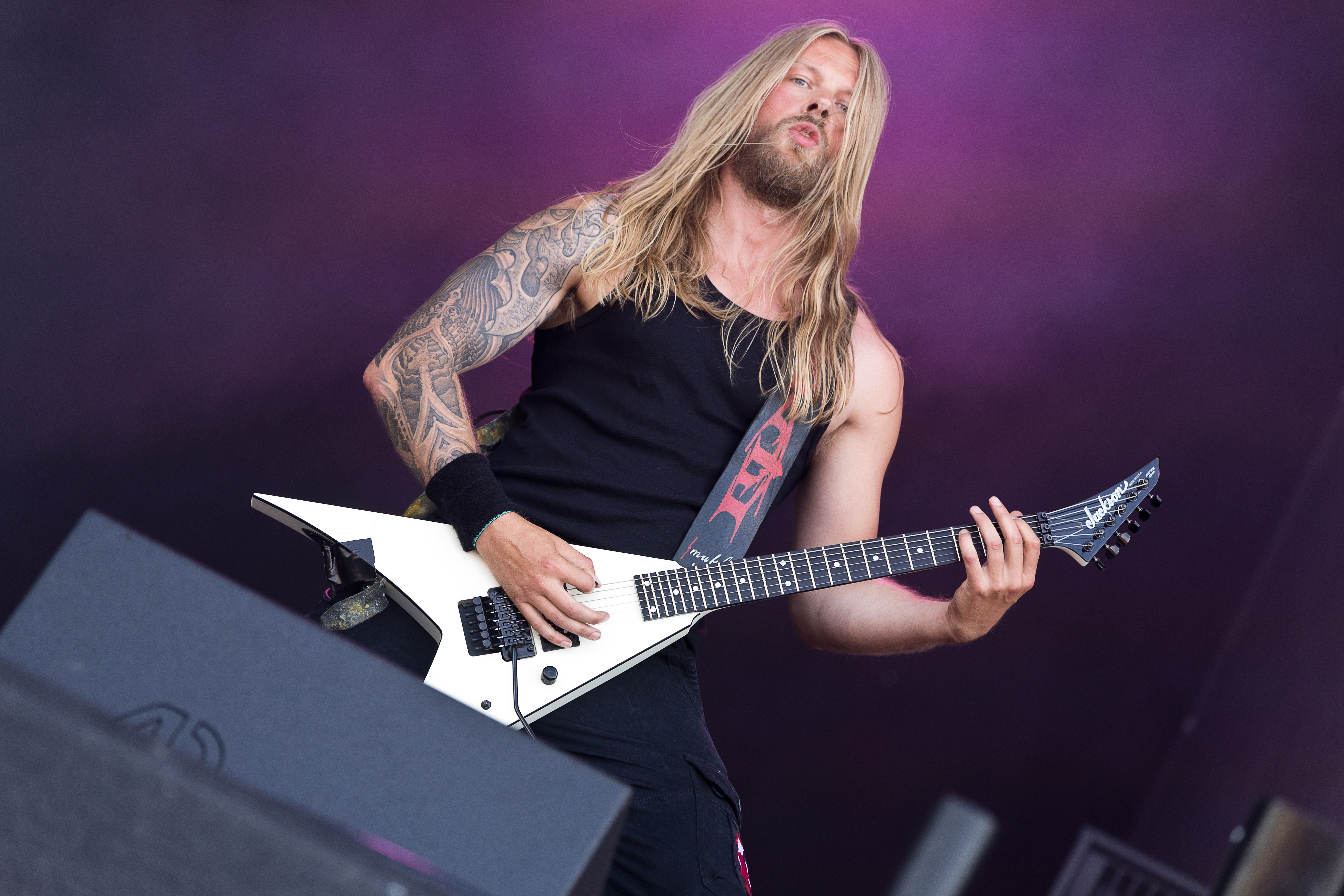 The Danish death metal band Illdisposed at the Rockharz Open Air 2016 in Ballenstedt/Germany.